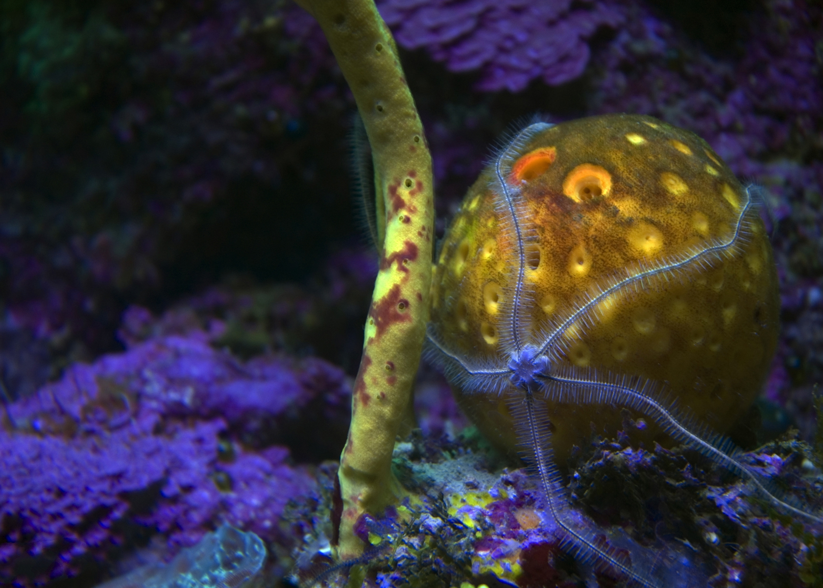 El parque cuenta con un maravilloso acuario donde puedes apreciar y ver de cerca una gran variedad de fauna acuática y exótica de Quintana Roo